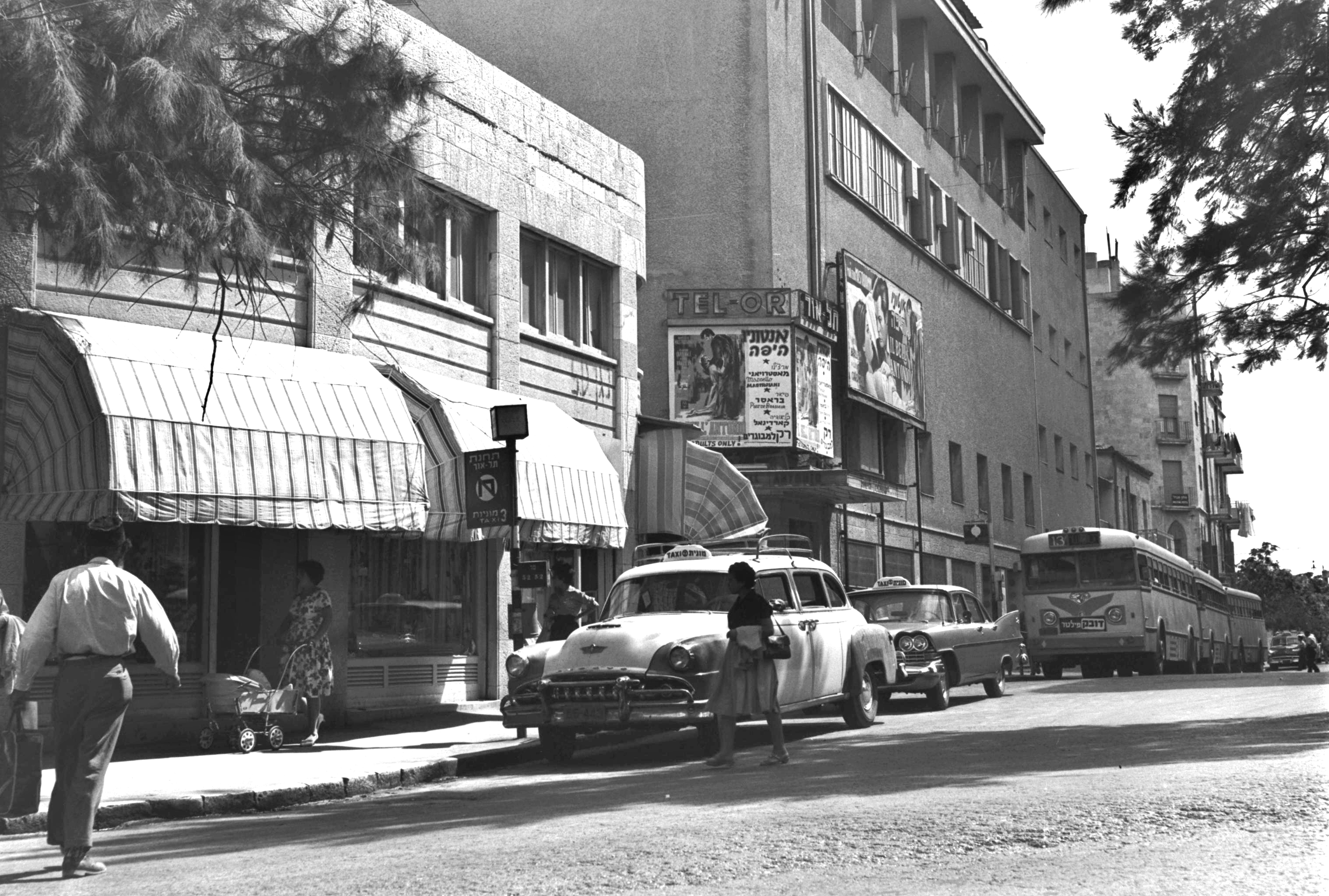 Cinema Tel-Or on Histadrut Street, Jerusalem.